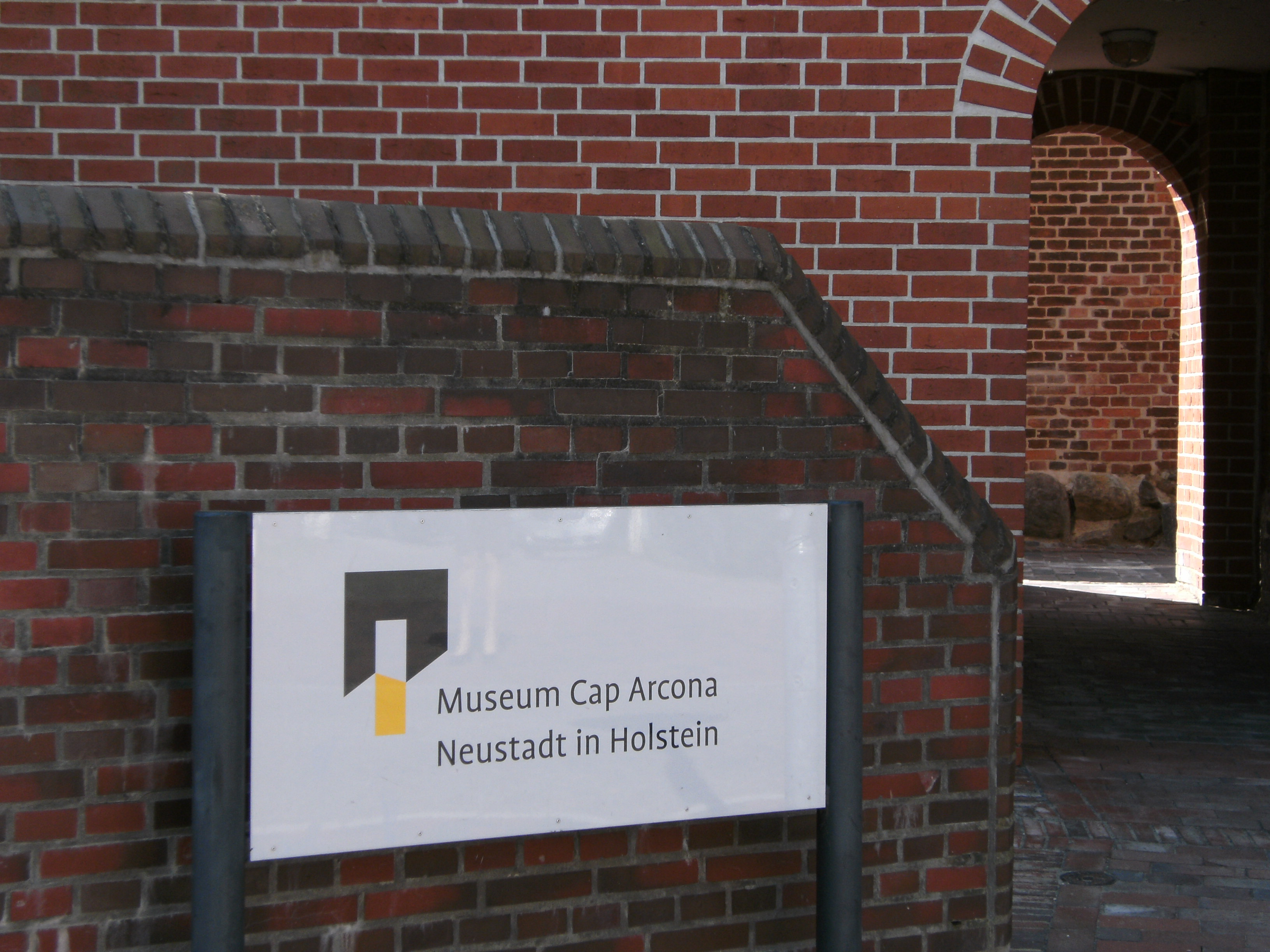 Plaque at Kremper Tor in Neustadt in Holstein announcing the Cap Arcona Museum in zeiTTor Museum of the town.